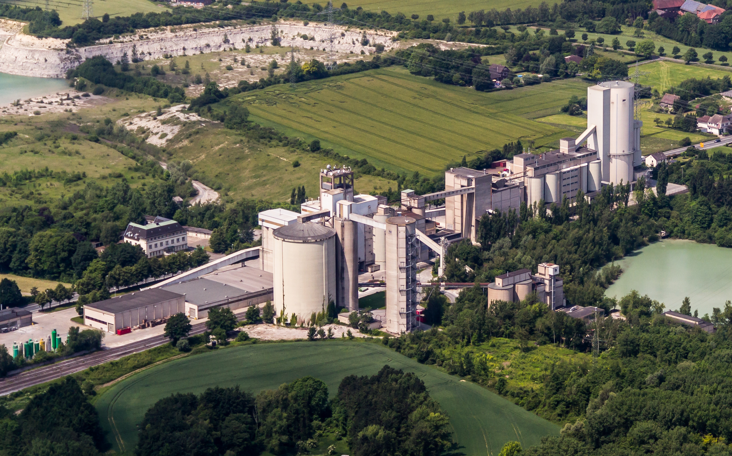 Cement work Anneliese II in Ennigerloh, North Rhine-Westphalia, Germany